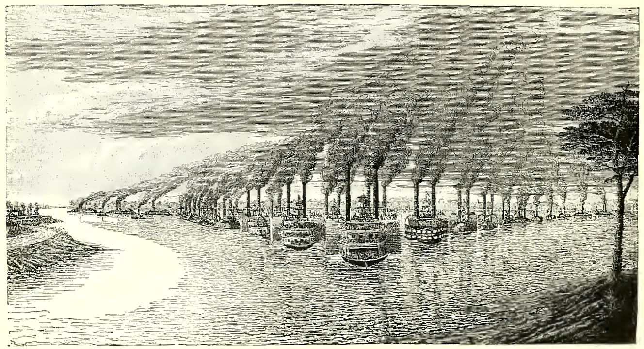 Illustration taken from book: THE NAVAL HISTORY OF THE CIVIL WAR BY Admiral DAVID D. PORTER, U. S. Navy 1886